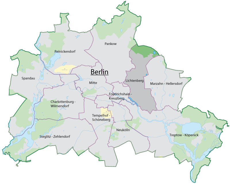 Author: Felix Hahn Source: Based on Water map of Berlin Description: Map of Berlin and its districts.